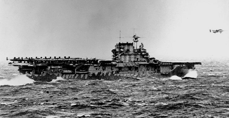 The U.S. Navy aircraft carrier USS Hornet (CV-8) launches a U.S. Army Air Forces North American B-25B Mitchell during the Doolittle Raid, 18 April 1942.